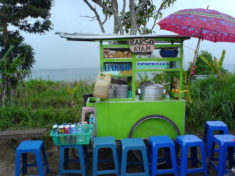 Bedugul is located by the crater lake Tamblingan in Bali, Indonesia. It is a pilgrimage destination for the island's Hindus and a popular spot for picnics. Hence the many colorful food stalls.